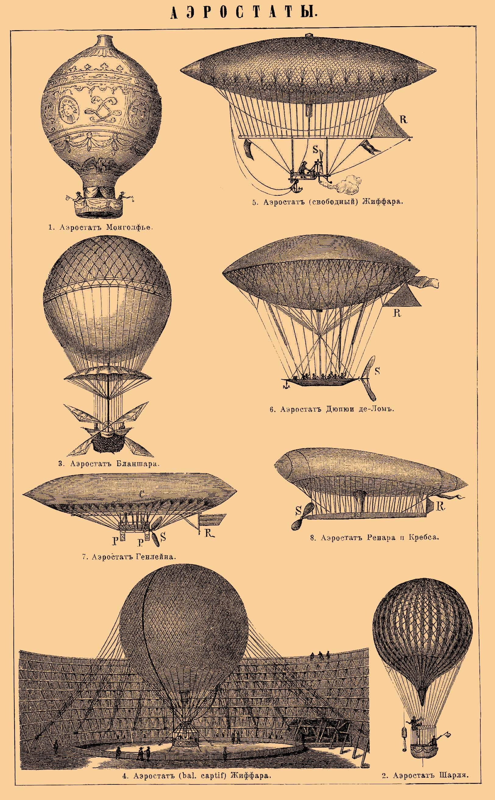 Various air balloons and airships. Draving from the Brockhaus and Efron Encyclopedic Dictionary, 1890-1907